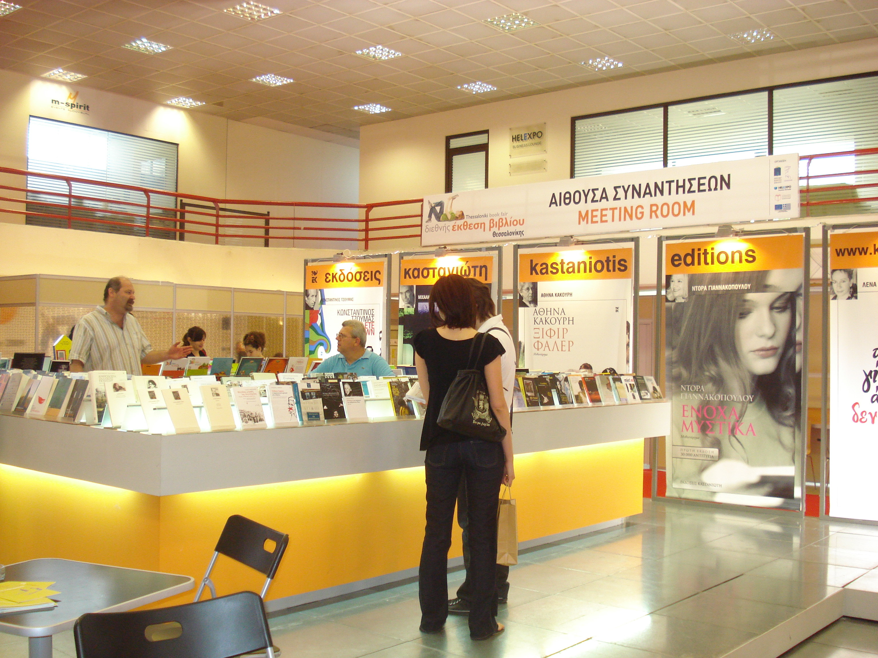 Meeting Room, Thessaloniki International Book Fair.